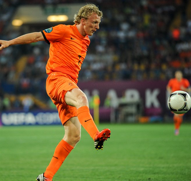 UEFA Euro 2012 match between Netherlands and Denmark that took place in Kharkiv. Final result was 0:1 (Krohn-Delhi)